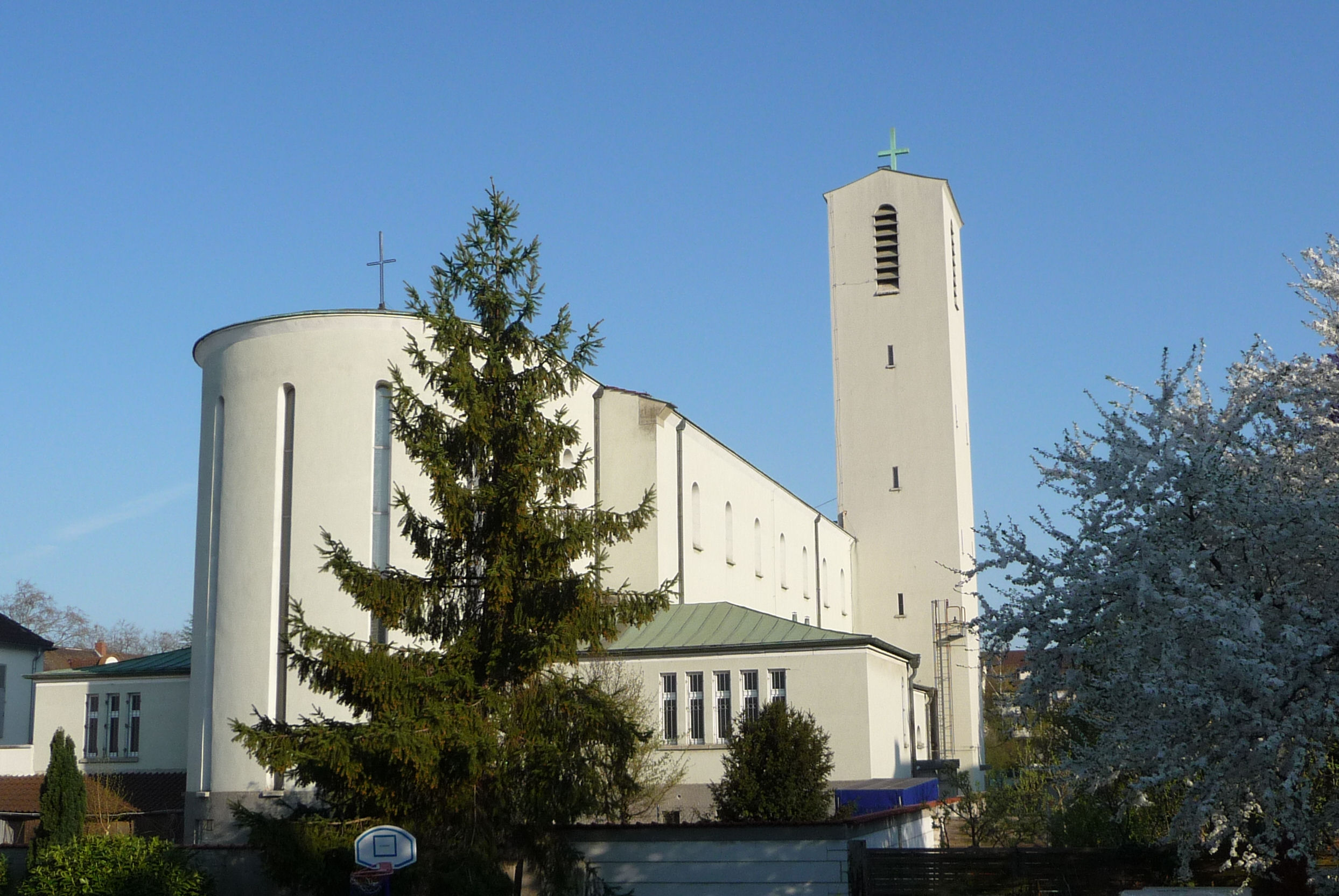 church in Ludwigshafen, Germany